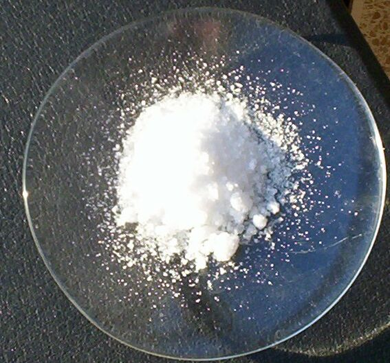 Picture of sodium chlorate, taken by User:Walkerma, January 2006.